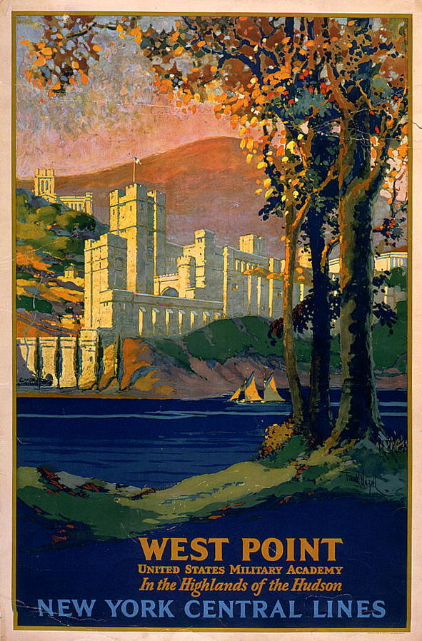 Title: West Point, United States Military Academy, in the highlands of the Hudson. New York Central Lines / Frank Hazell. Abstract/medium: 1 print (poster) : color.